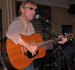 Photo by Robert E. Haraldsen of Jahn Teigen, Norwegian pop artist, playing Robert's Martin D-18 on 5 September 2002 at the Protest Festival in Kristiansand, Norway. ©Profero Grafisk, Norway. Filename:Jahn Teigen Roberts Martin D-18 DSCN1745-cvsm-2.jpg